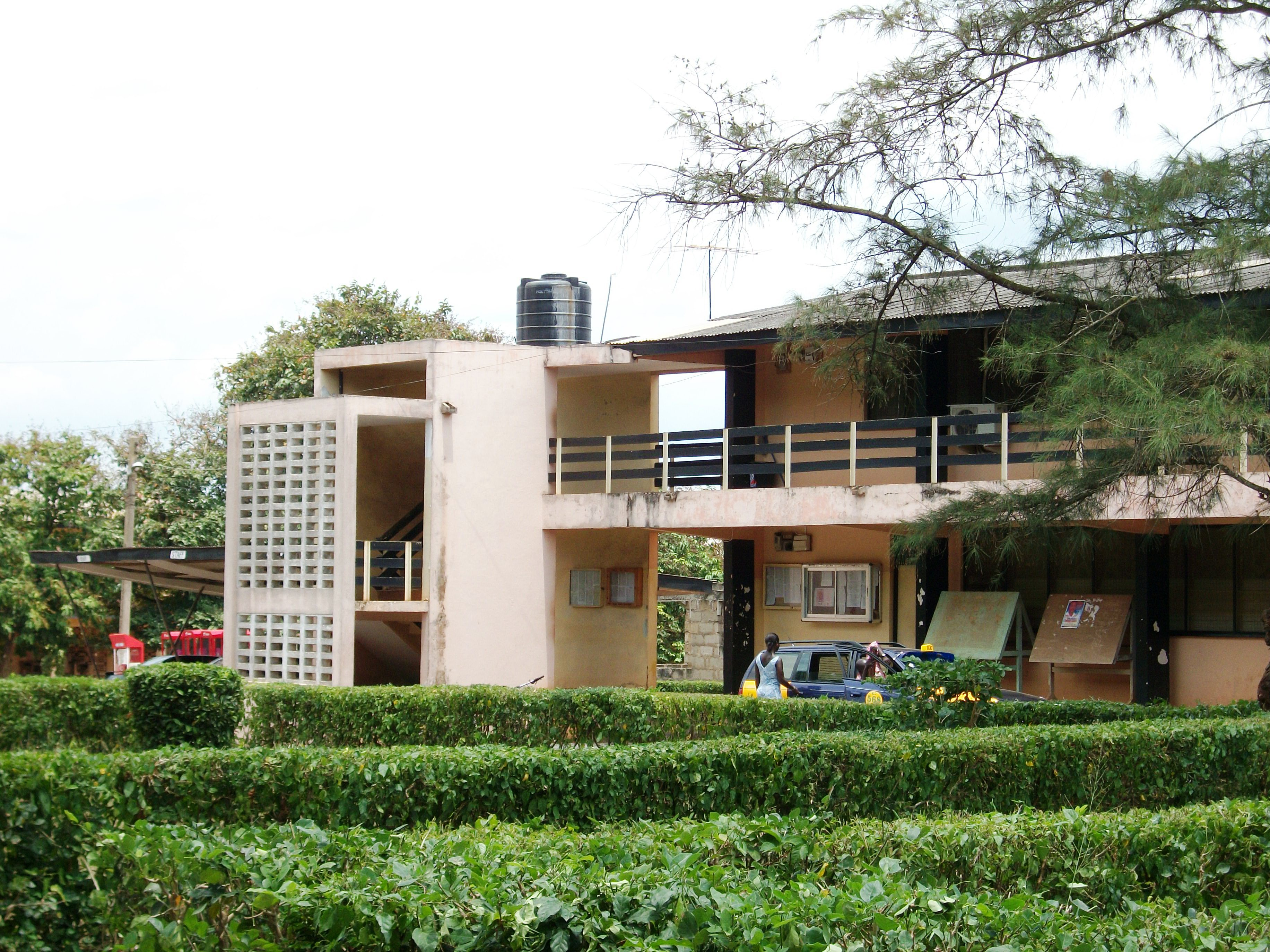 KSTS Administration Block